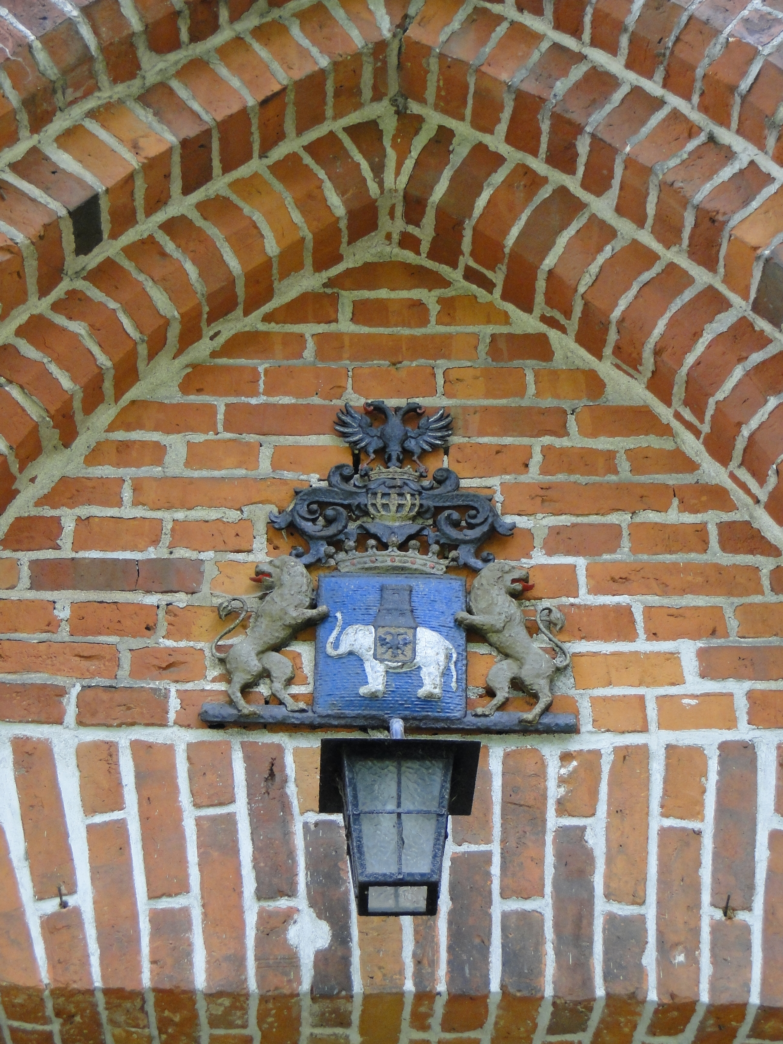 Church St. Johannis in Boek, district Mecklenburgische Seenplatte, Mecklenburg-Vorpommern, Germany